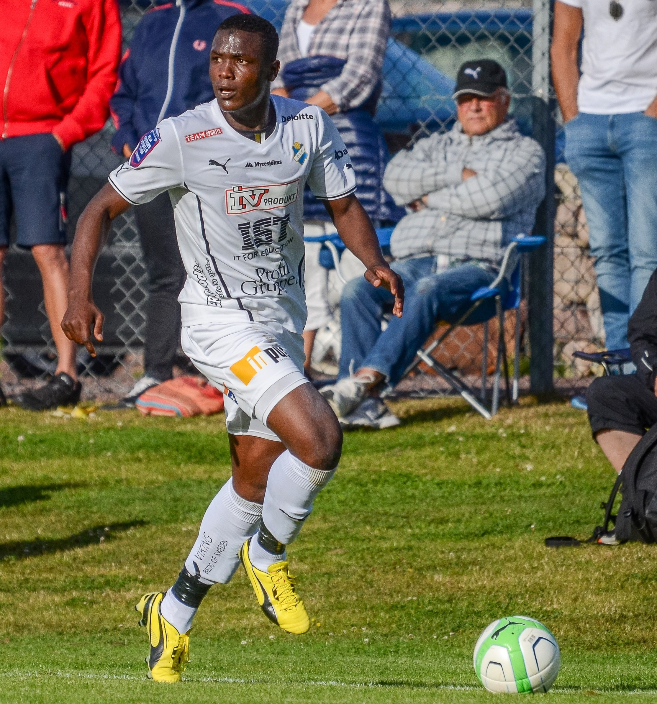 Nigerian striker Alhaji Gero playing his first game for new Swedish side Östers IF in an Under-21 game against Kalmar FF.